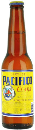 cerveza